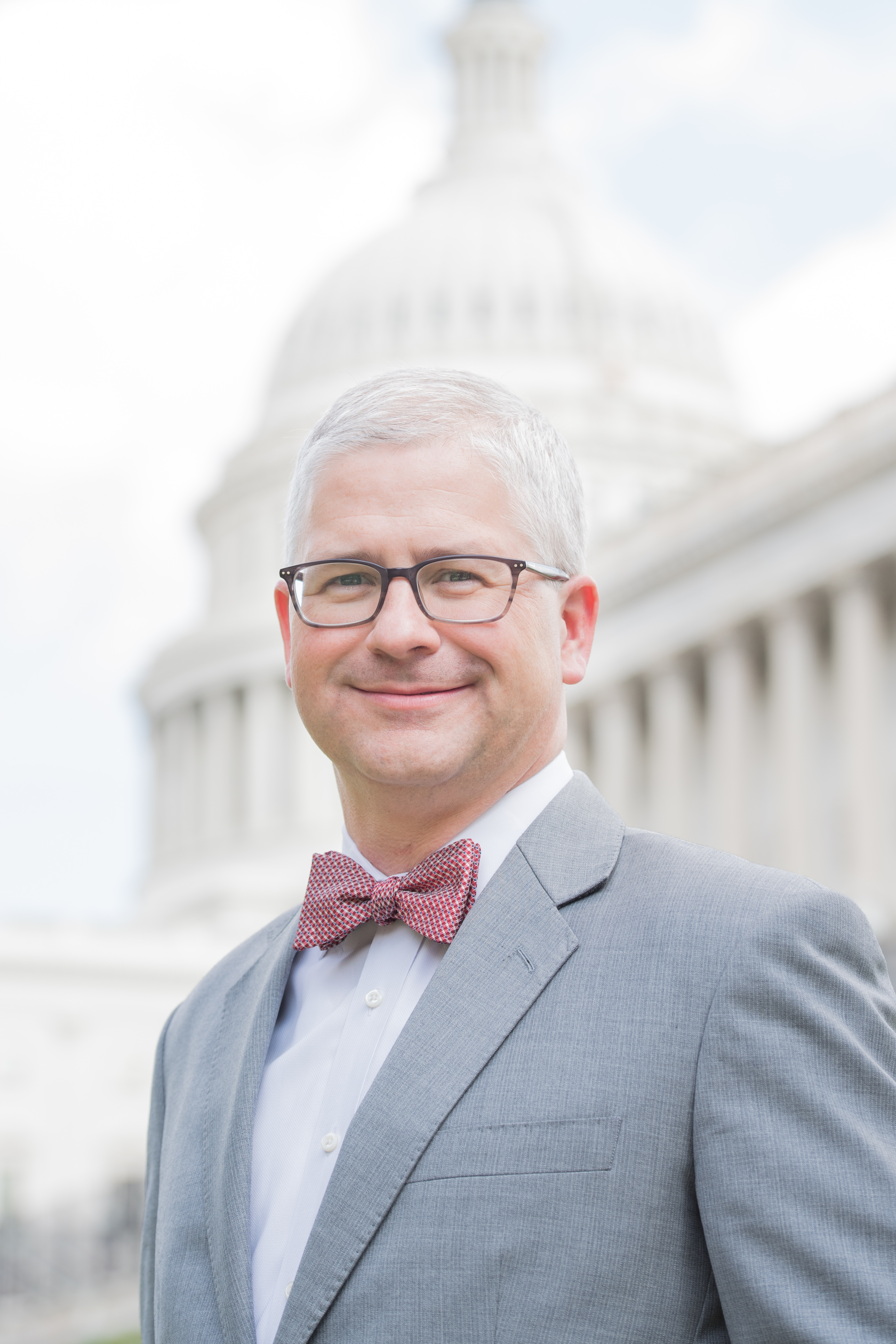 Official portrait of U.S. Rep. Patrick McHenry, 2018